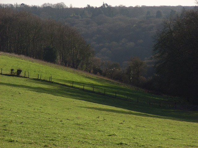 Woods and pasture, Northend With Swain's Wood on the right.